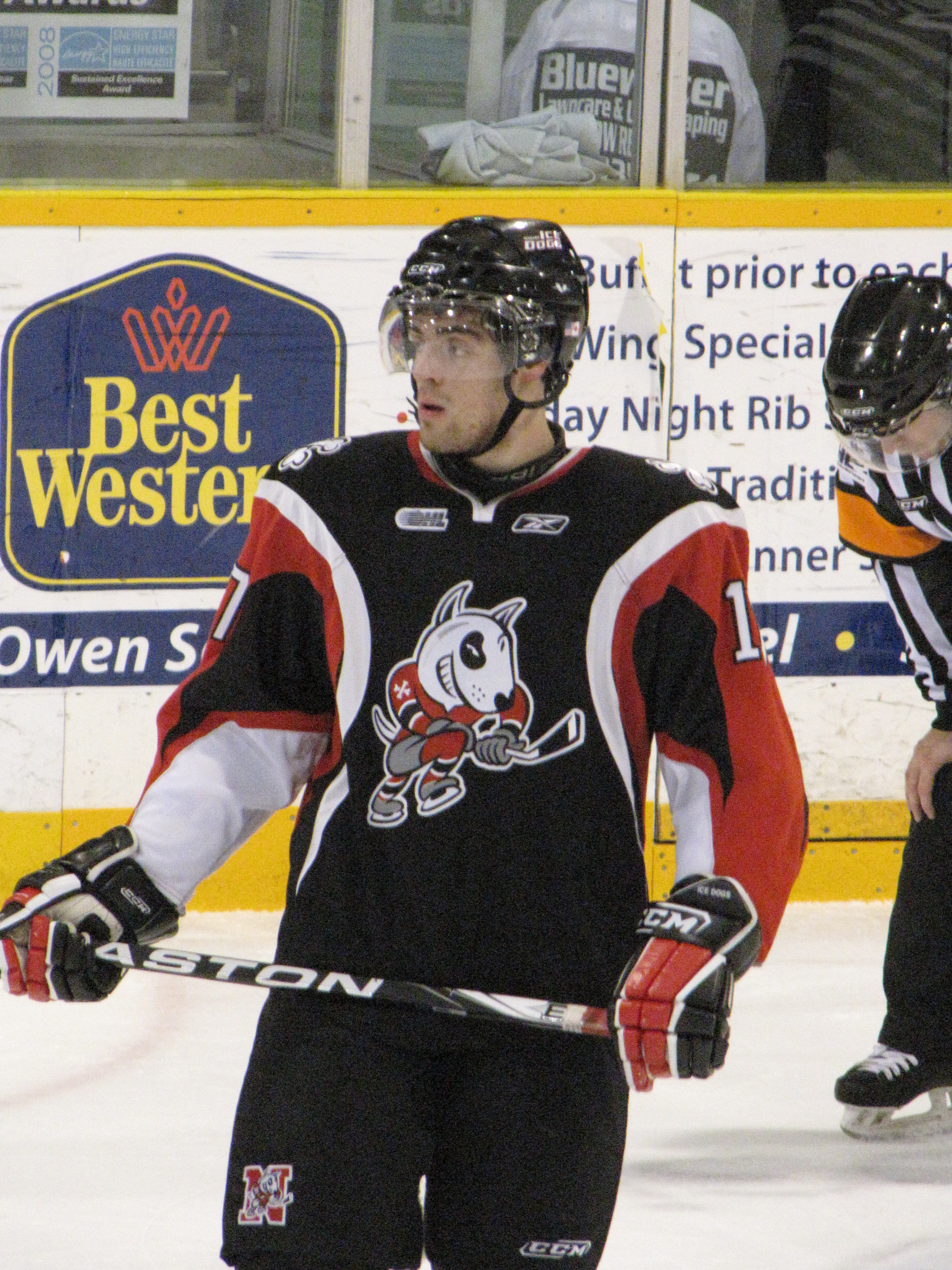 Ice hockey player Marco Insam (Niagara Ice Dogs)